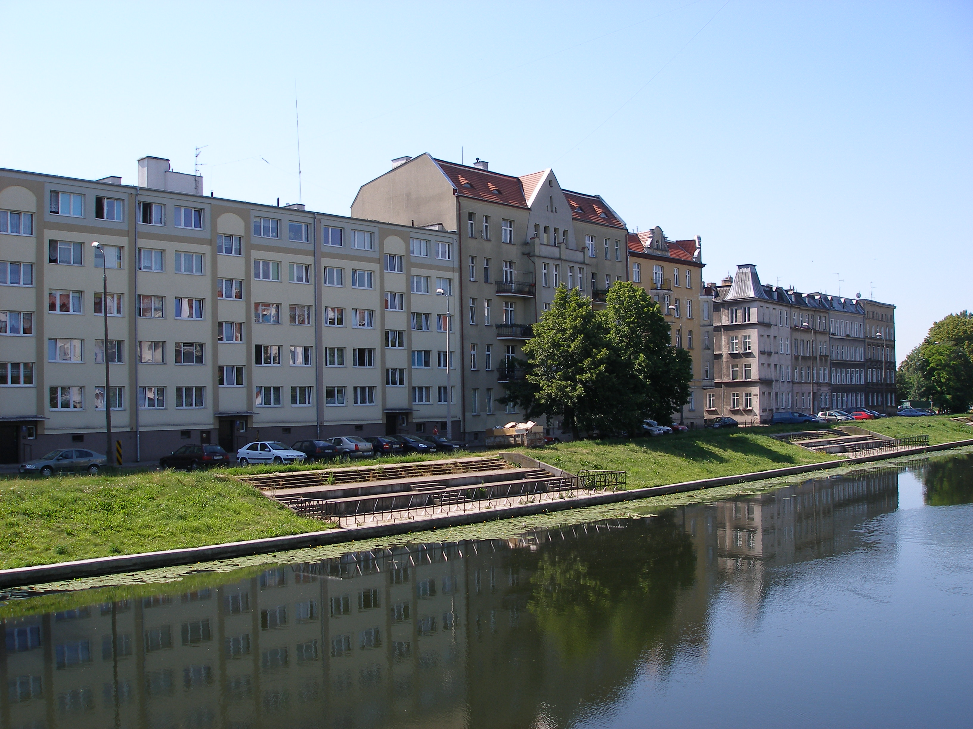 Motława River in Gdańsk.